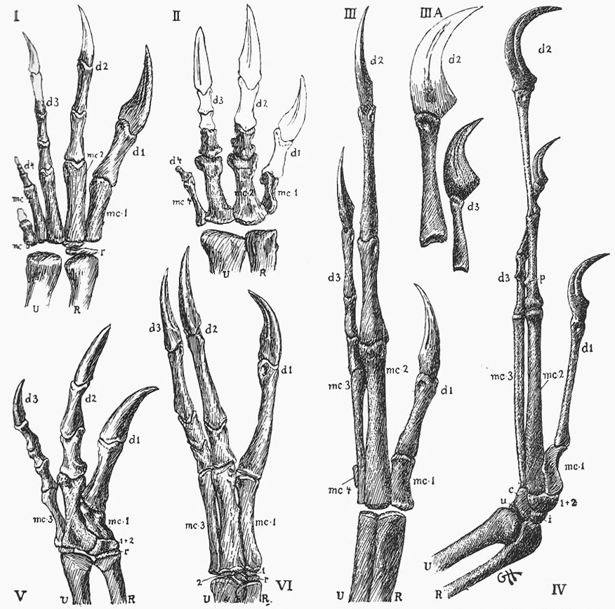 Gerhard Heilmann's comparative illustration of left hands of Anchisaurus (I), Ceratosaurus (II), Ornitholestes (III), the Berlin Archaeopteryx specimen, then known as Archaeornis (IV), Antrodemus (V), and Struthiomimus (VI).